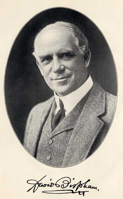 Image of American opera singer David Bispham, with replicated signature.